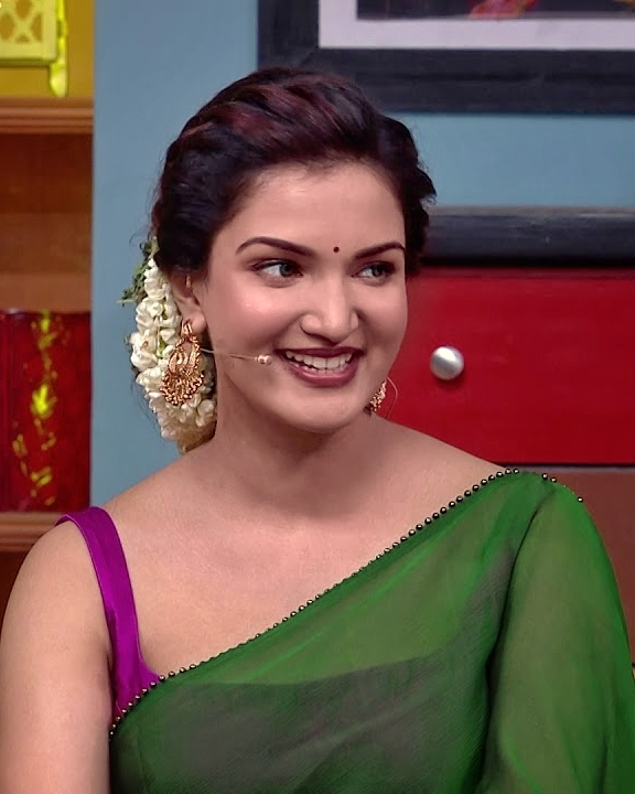 Actress Honey Rose during an interview in Badai Bungalow on Asianet